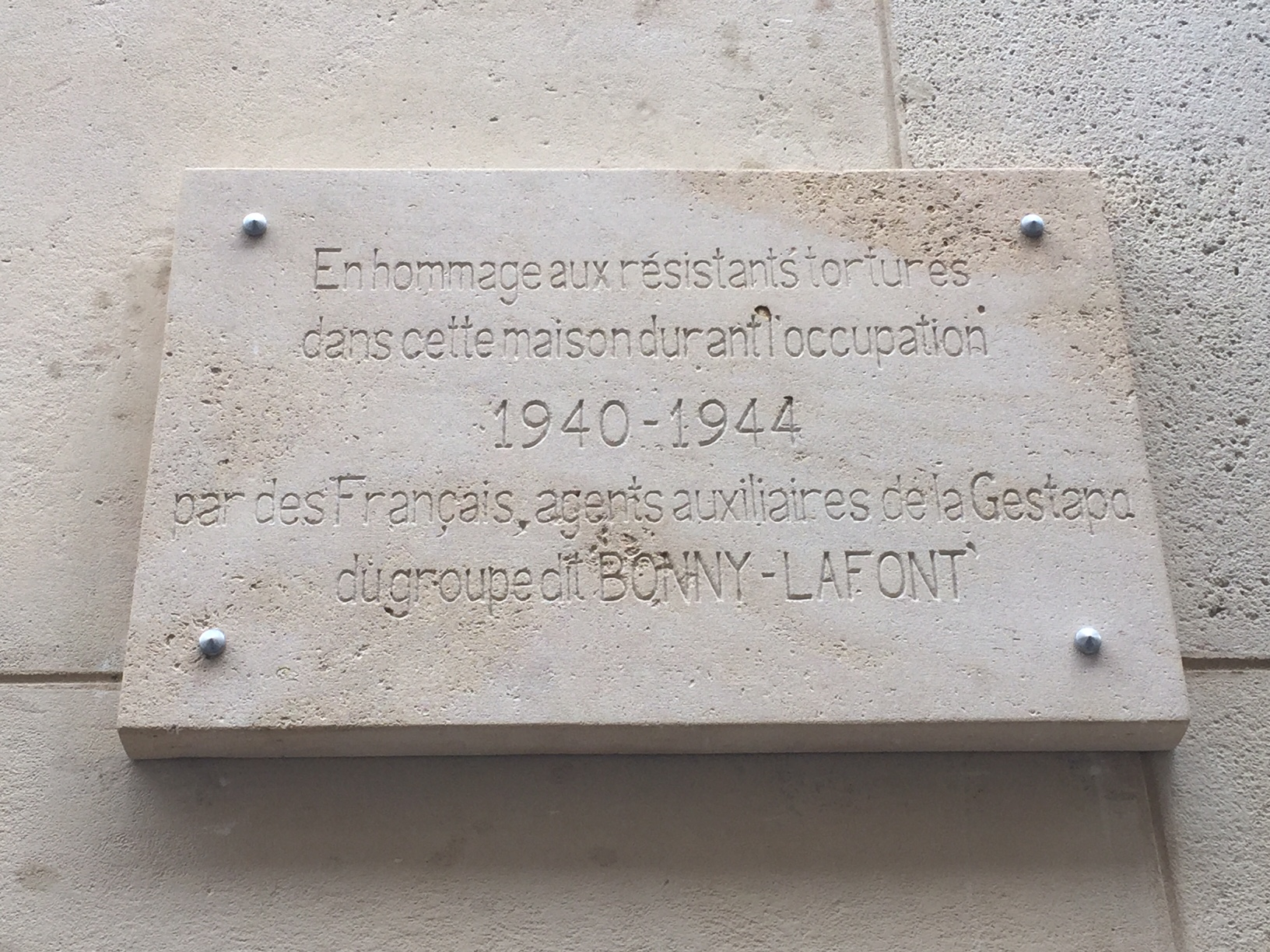 Memorial plaque at 93, rue Lauriston in Paris.